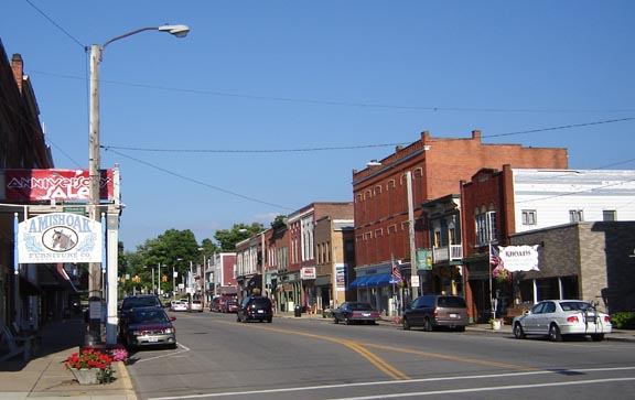 Ohio - Loudonville - 07-08-07 By:Mike Sharp.